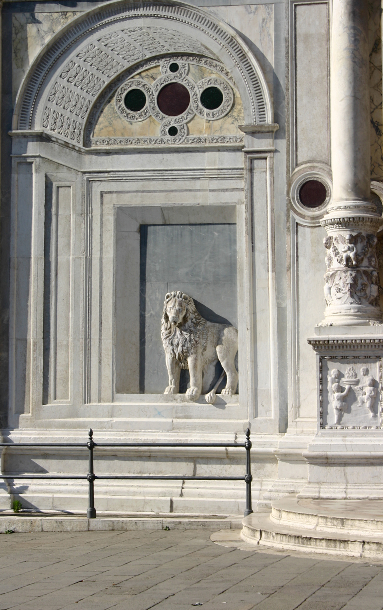 Venezia, detail from the decoration of the Hospital, housed in a Renaissance former guild-hall building beside the Basilica dei santi Giovanni e Paolo. Picture by Giovanni Dall'Orto, July 2, 2006.